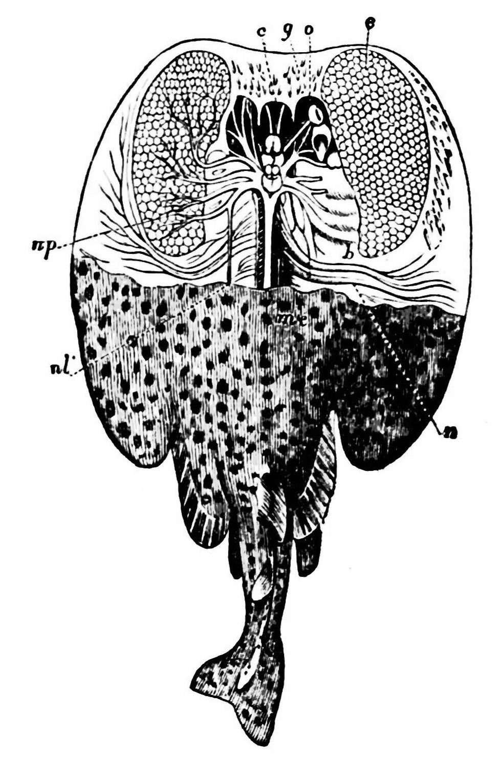 The torpedo ray with its electrical apparatus displayed